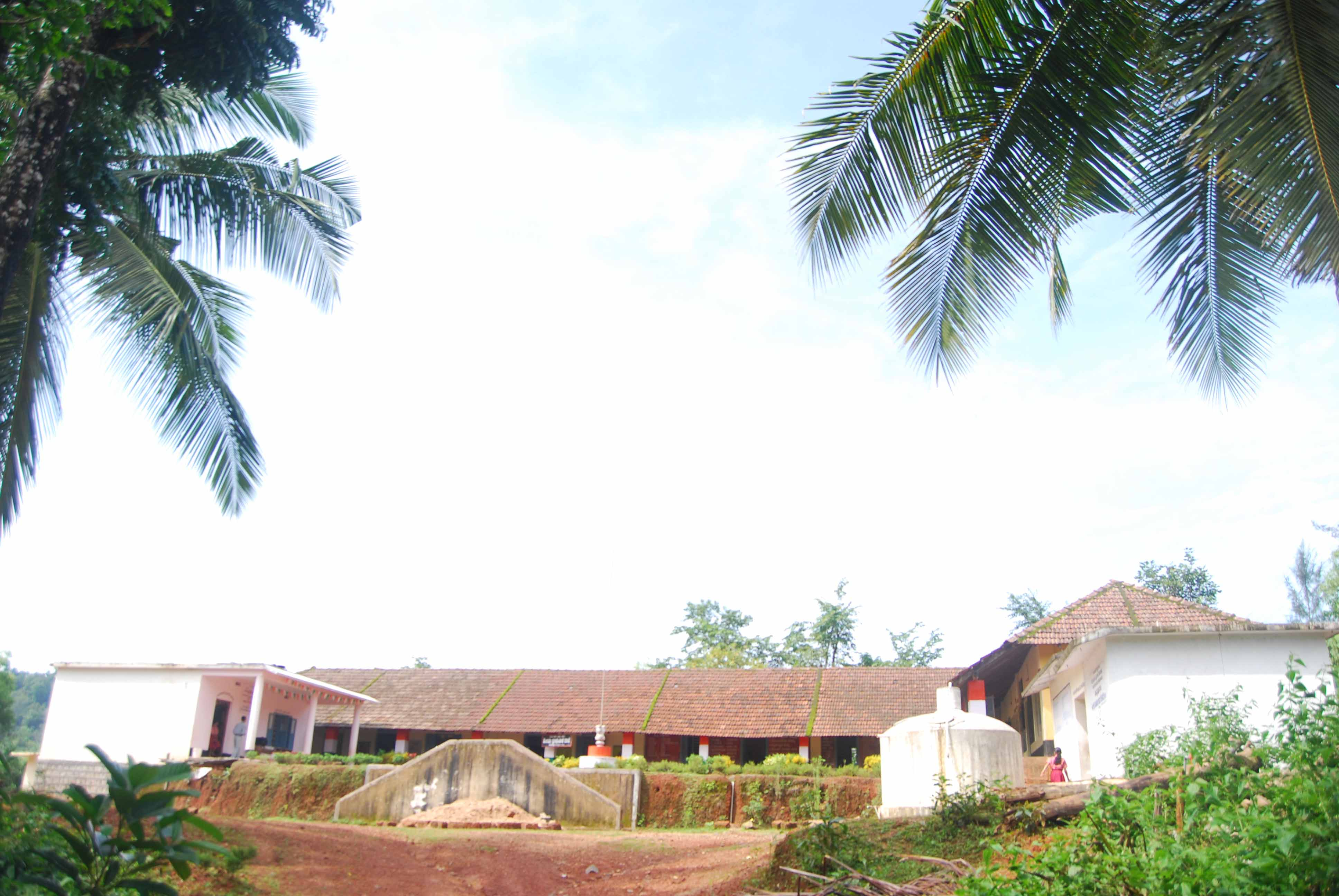 Govt School Kuntikana Puttur, ಸರಕಾರಿ ಶಾಲೆ ಕುಂಟಿಕಾನ, ಪುತ್ತೂರು